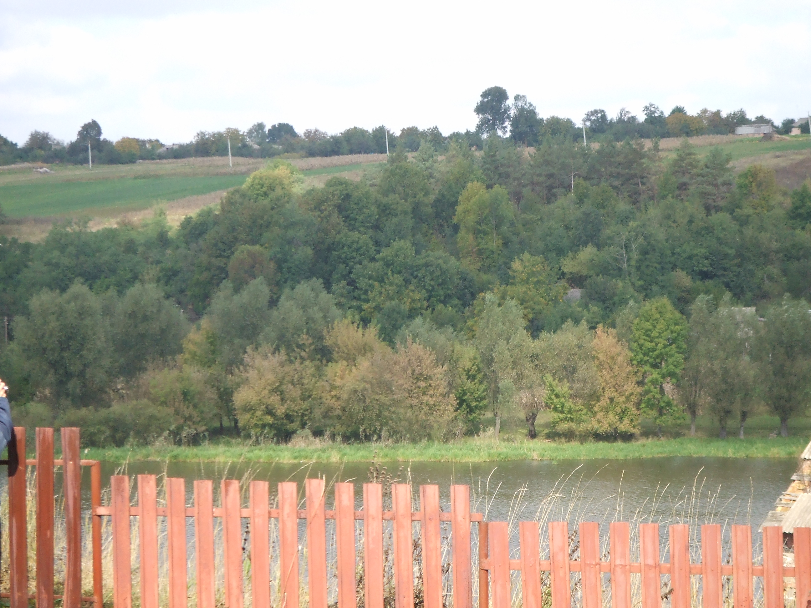 boug in bratslav,ukraine